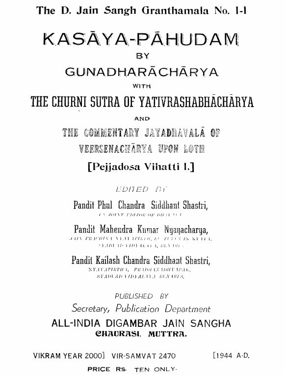 Kasayapahuda - Sacred Jain text